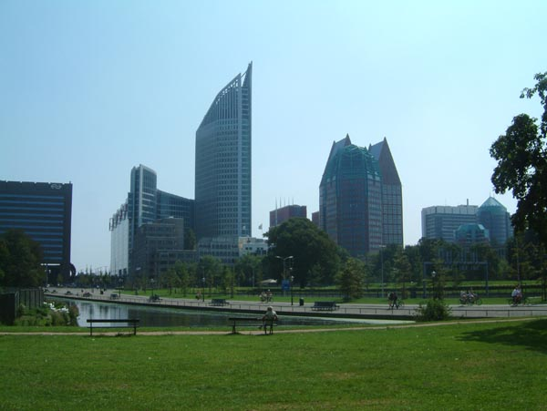 Government and business buildings next to The Hague Central Station.